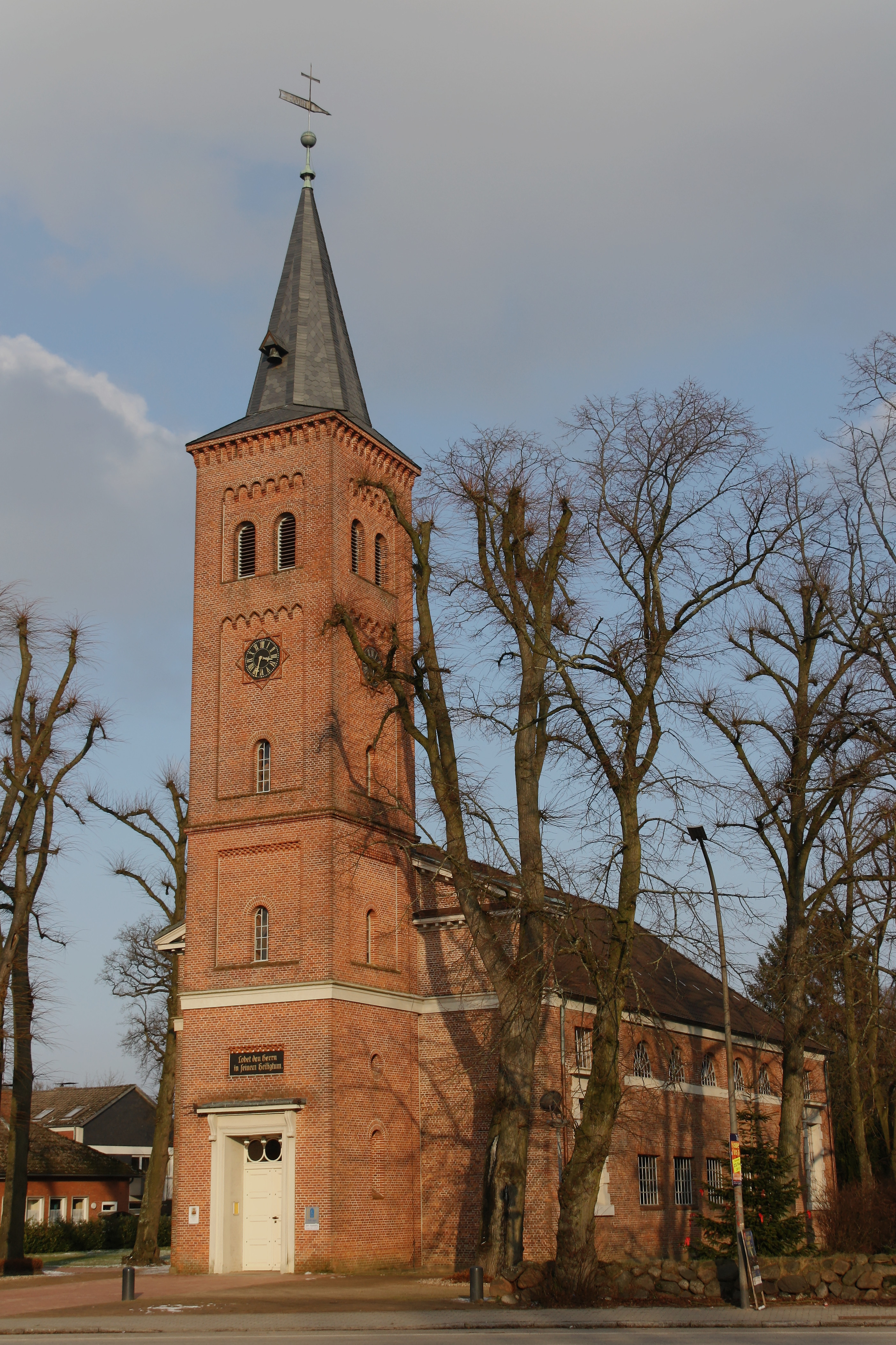 Germany, Quickborn, Mary's Church. View from the west.